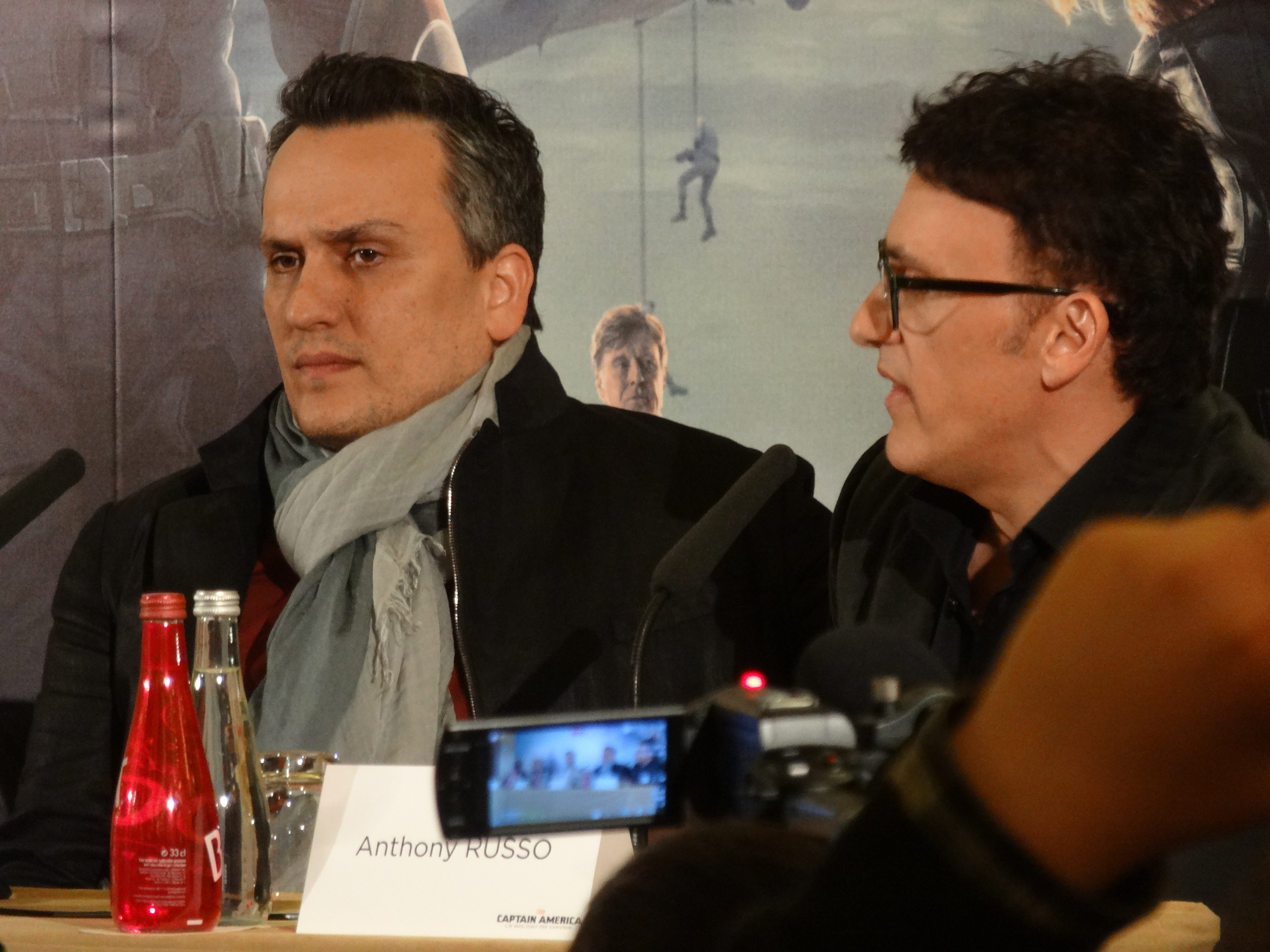 Joe and Anthony Russo at a press conference for Captain America: The Winter Soldier in March 2014.